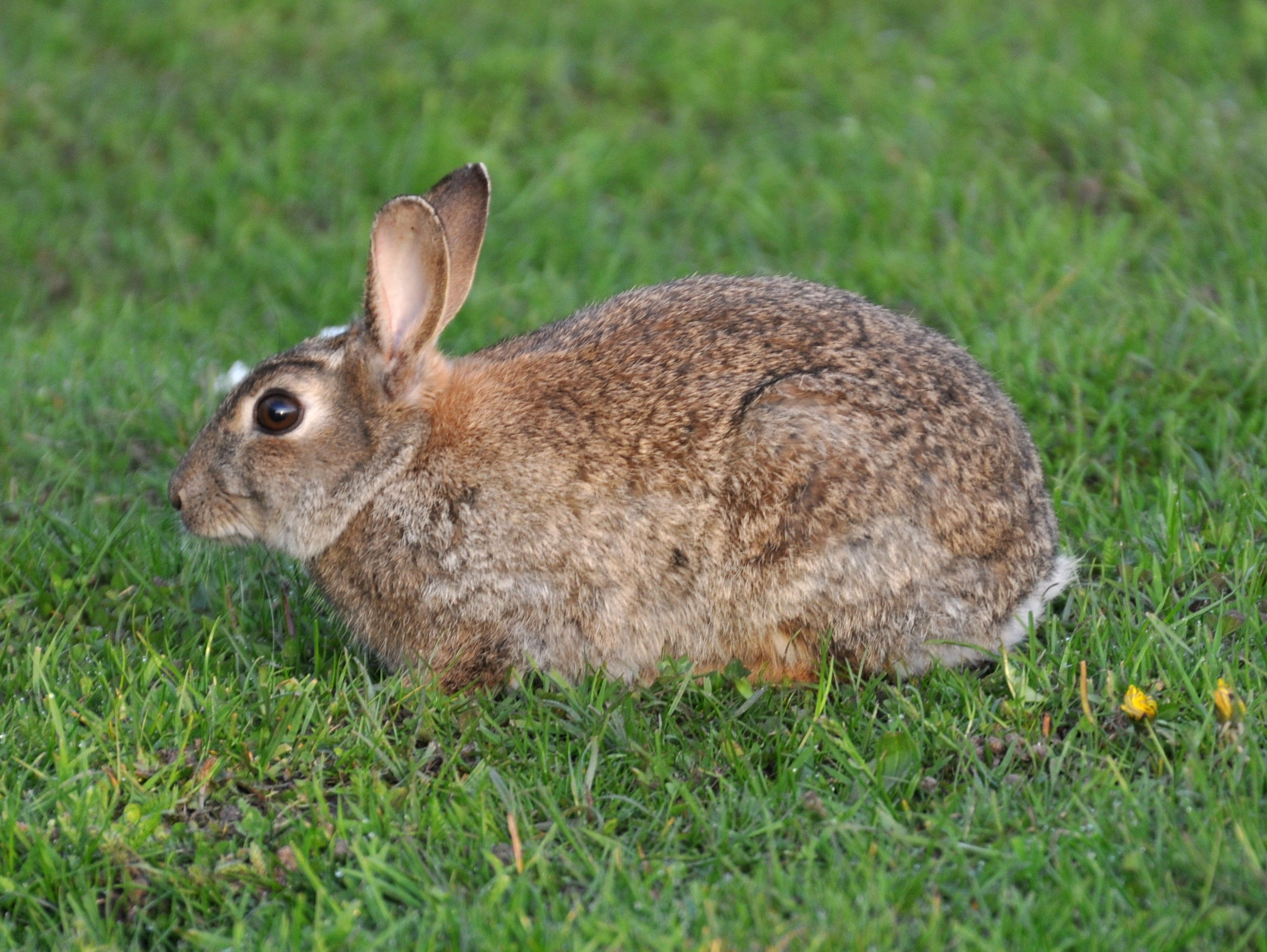 European Rabbit in Heiligenhafen.